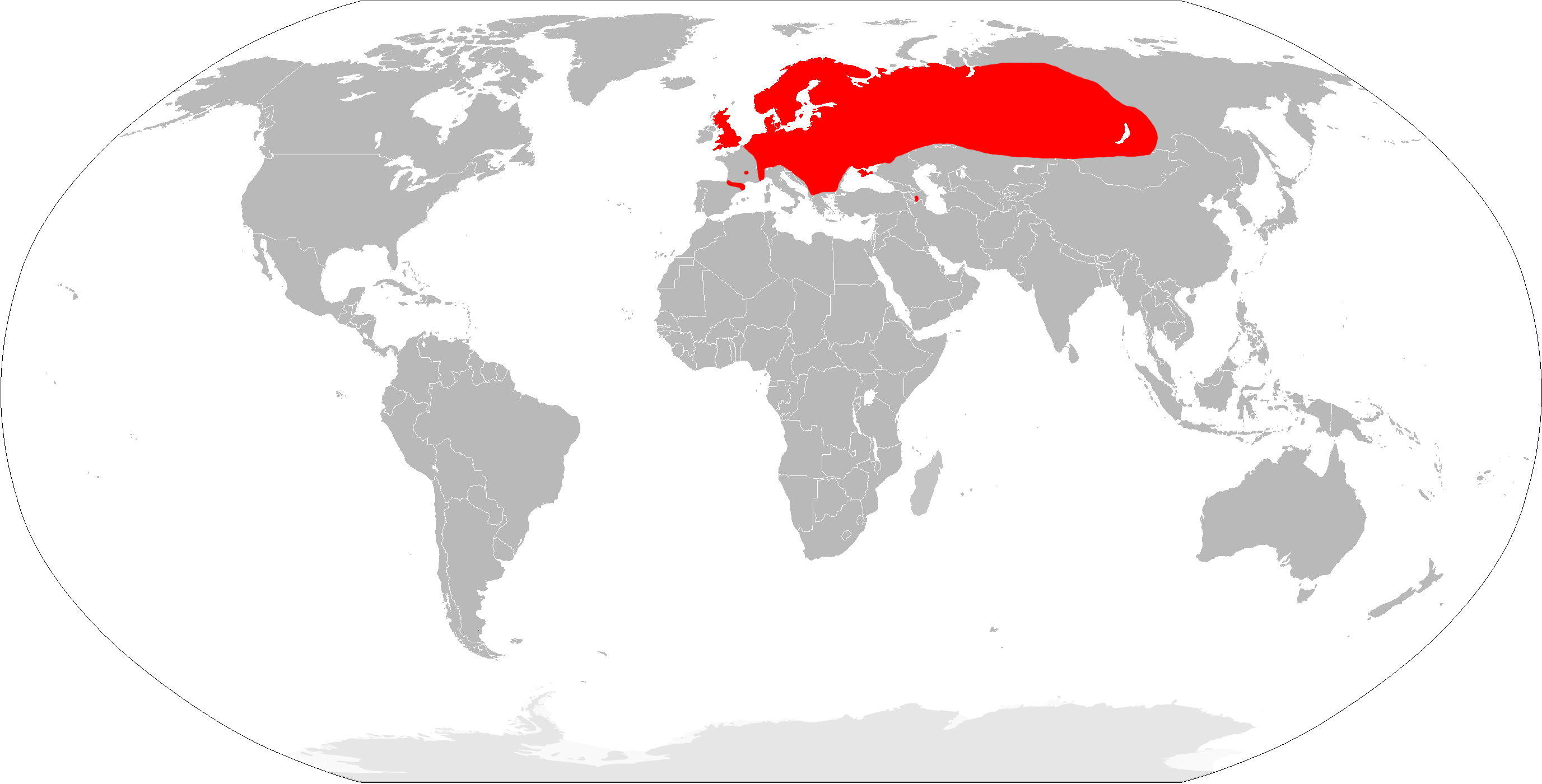 Range map of Sorex araneus.